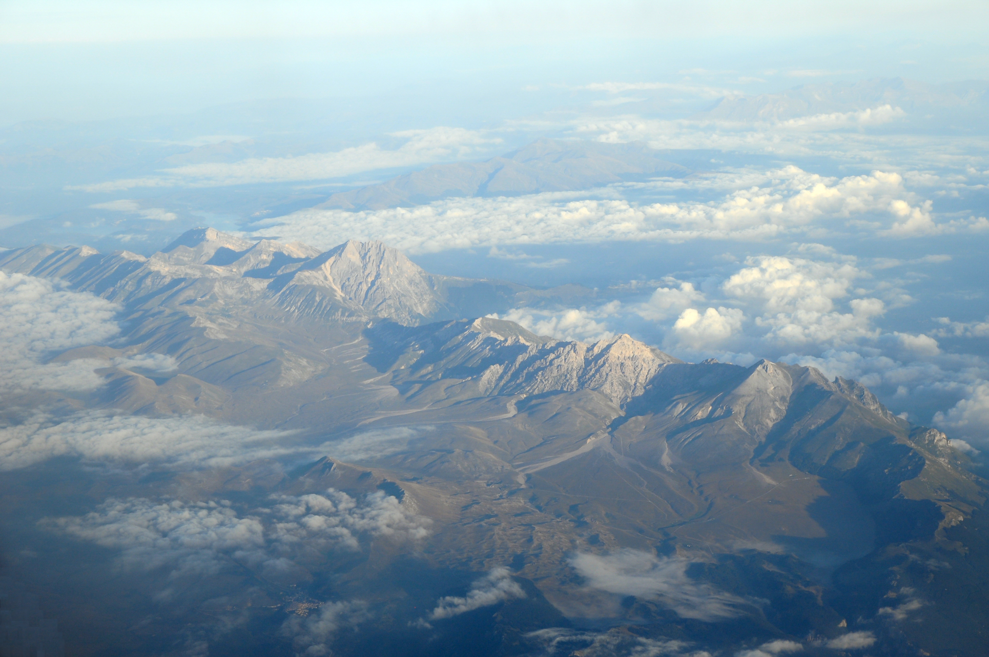 Gran Sasso mountain seen from an airplane. Part of the Central Apennines range, it is located in the Abruzzo region of Italy. The highest peak is Corno Grande (2,912 m).